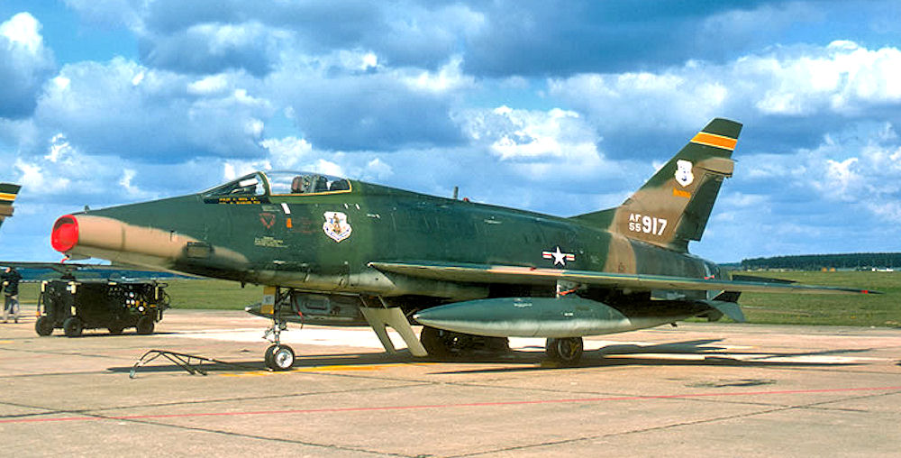 163d Tactical Fighter Squadron - North American F-100D-45-NH Super Sabre 55-2917 Retired to MASDC May 31, 1979 as FE0538. Later modified to QF-100D drone and expended.